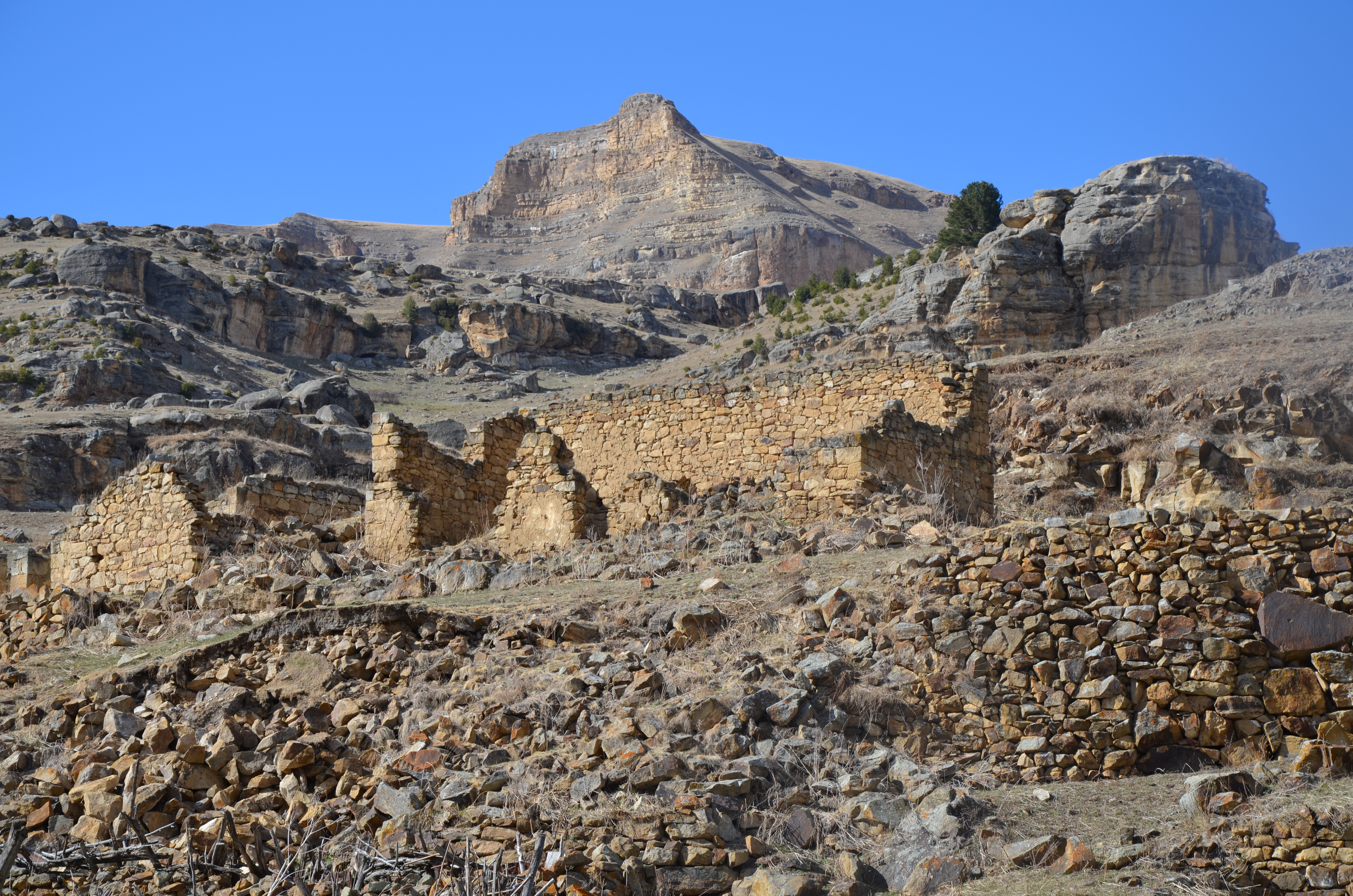 aul Khasaut`s ruines